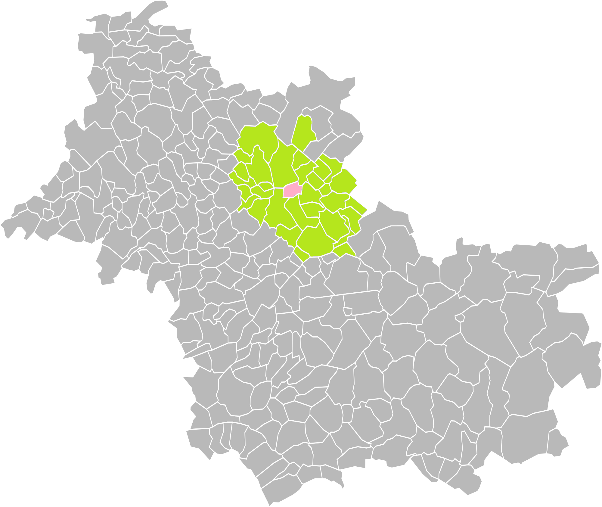 Location of the commune of La Madeleine-Villefrouin in the Communauté de communes de la Beauce-Val de Loire (Loir-et-Cher)